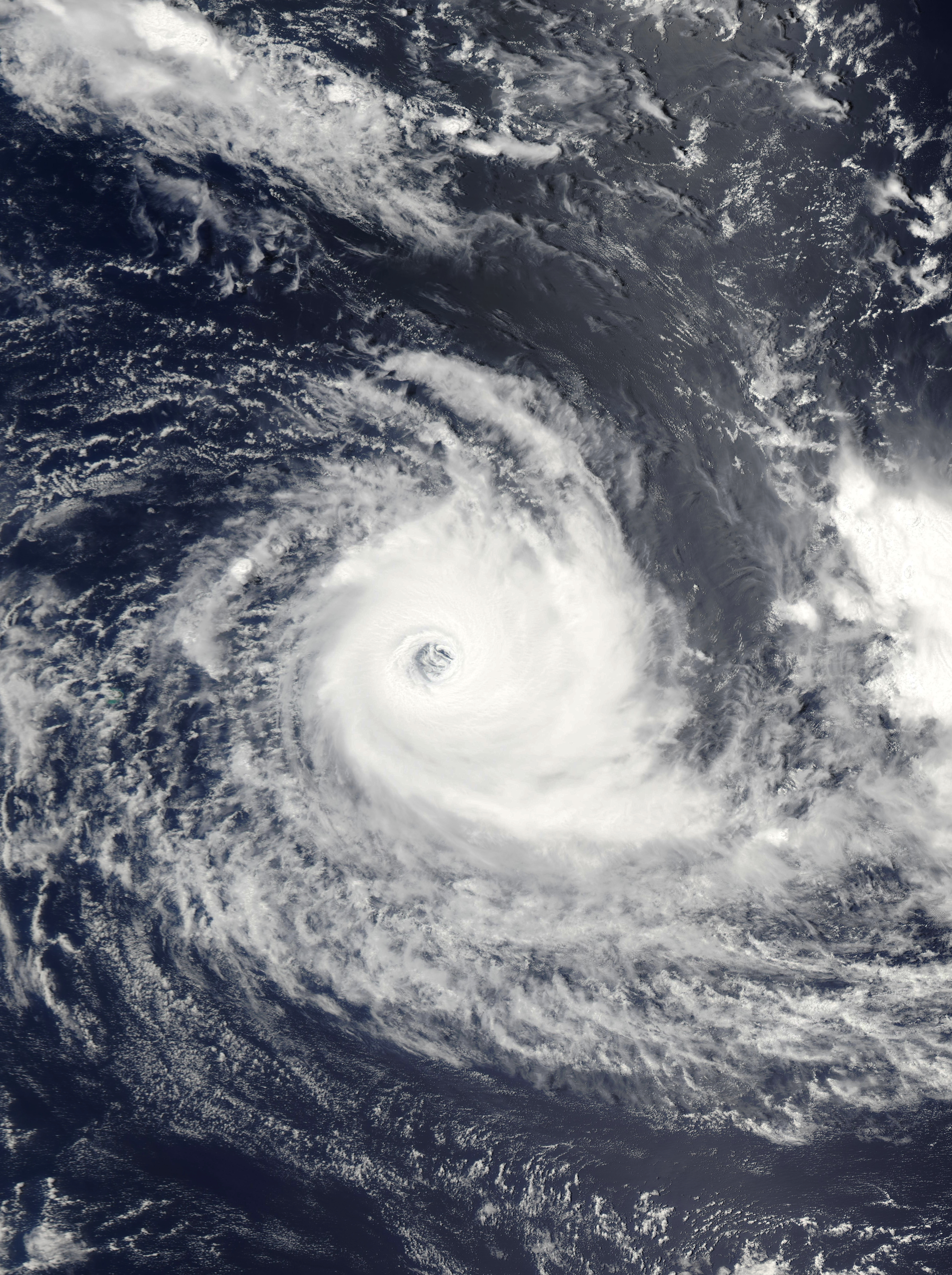 Intense Tropical Cyclone Dora on Feburary 3, 2007